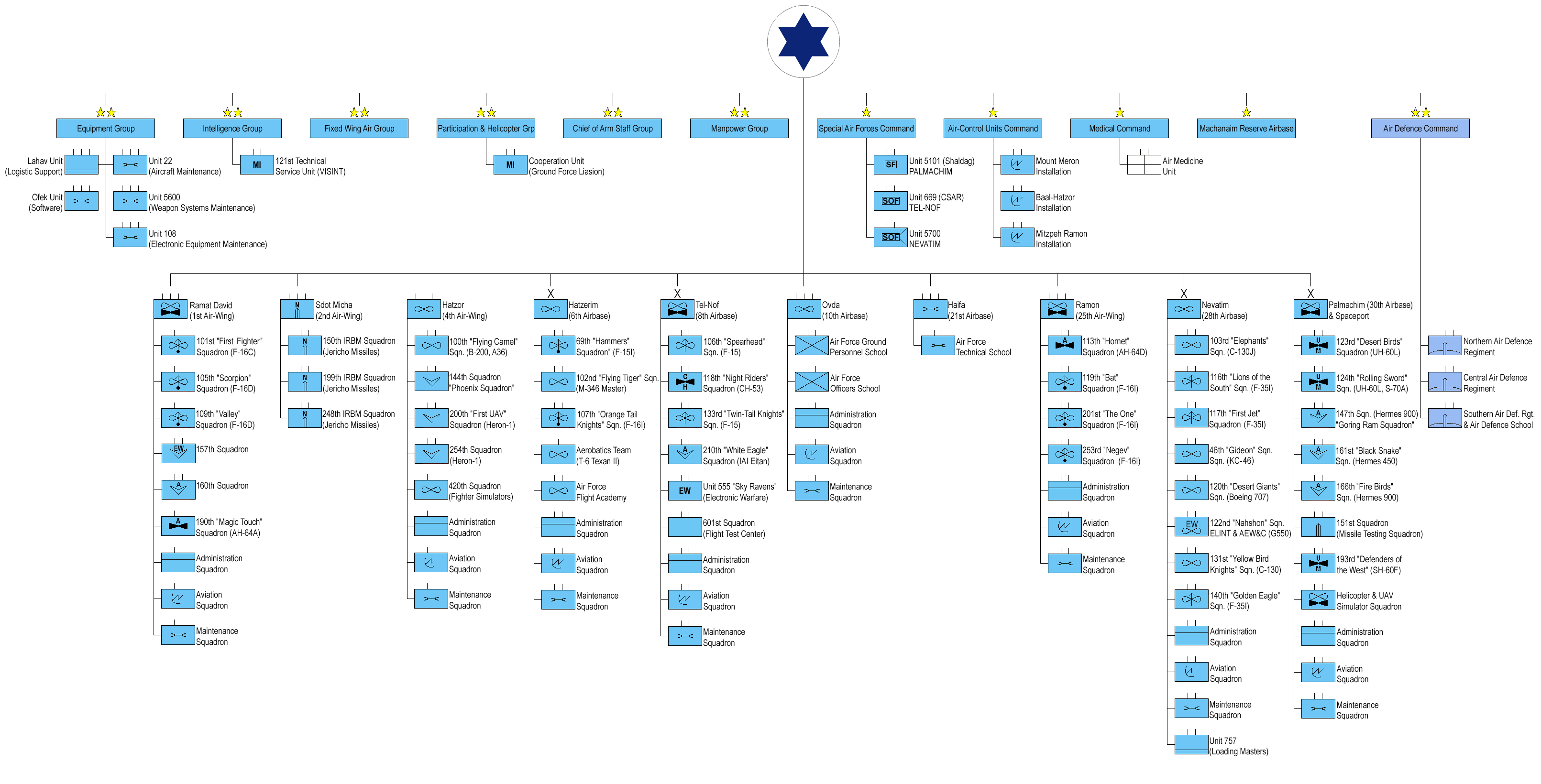 Structure of the known Order of Battle of the Israel Defense Forces Air Force.